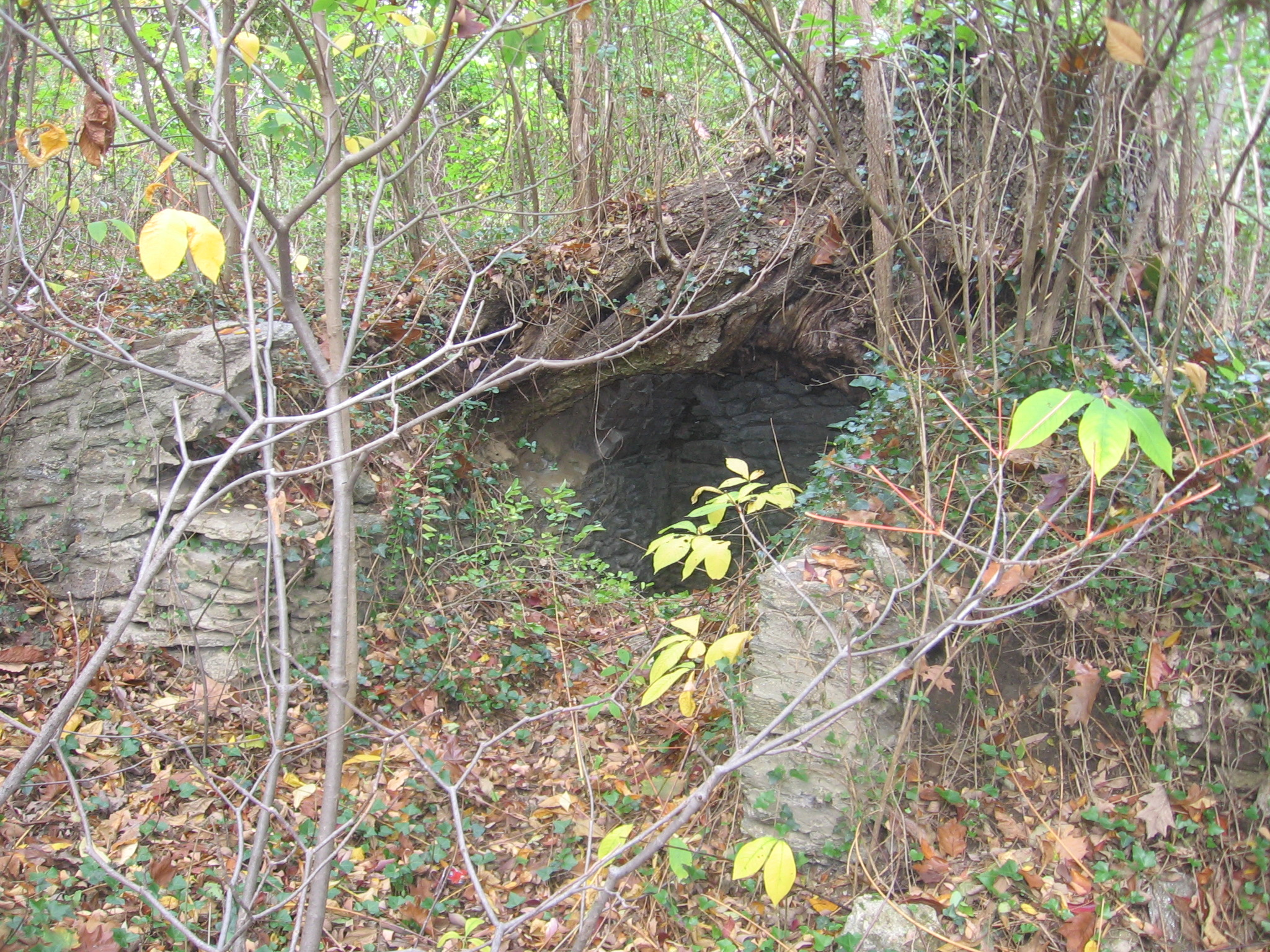 Ruins of a cave expanded by Charles Willson Peale on his Belfield Estate.